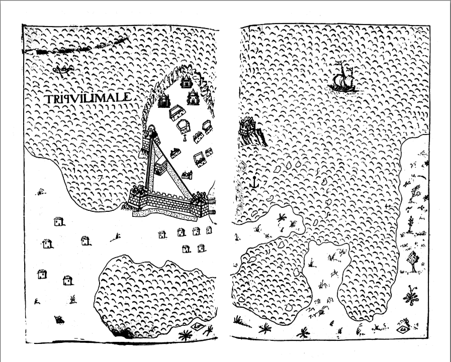 Map older than 200 years old of Konesar Malai, (Swami Rock) - Trincomalee - with three temples Copyright expired. This image is in the public domain due to its age 1594 - 1642 map by Antonio Bocarro, published in Livro das Plantas de todas as fortalezas, cidades e povoaçoens do Estado da Índia Oriental (1635)